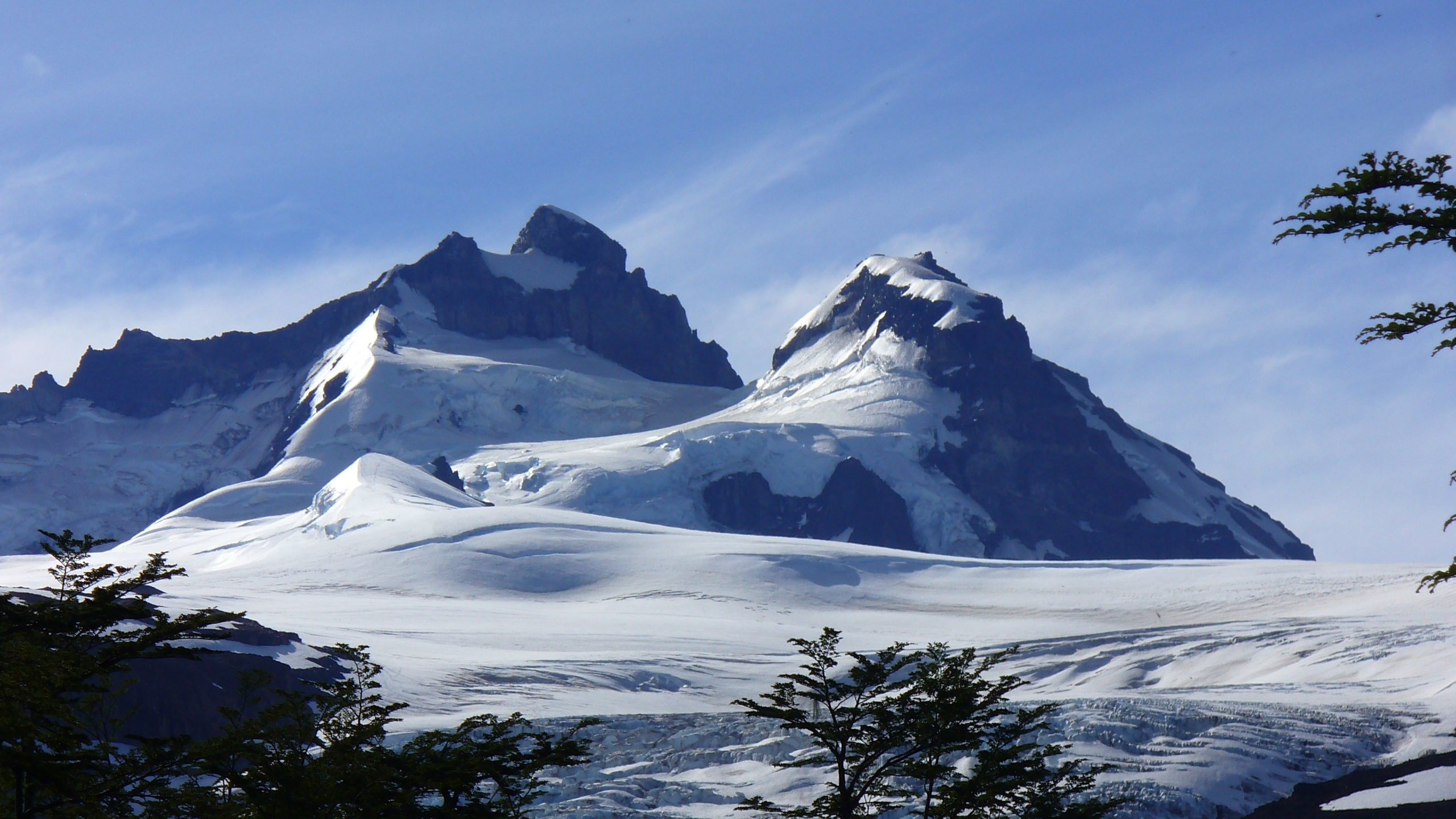 View of the Tronador. Tronador is an stratovolcano in the border between Argentina and Chile near the Argentinean city Bariloche.